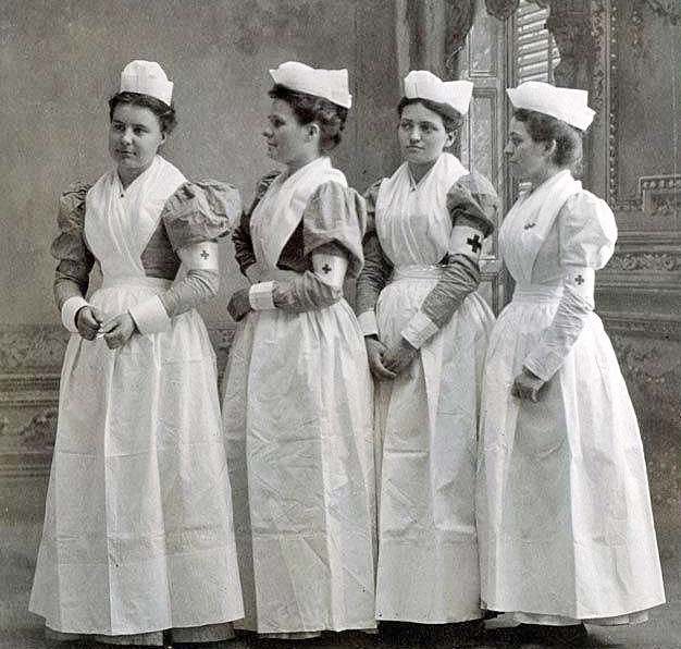 American Red Cross nurses in Tampa, 1898